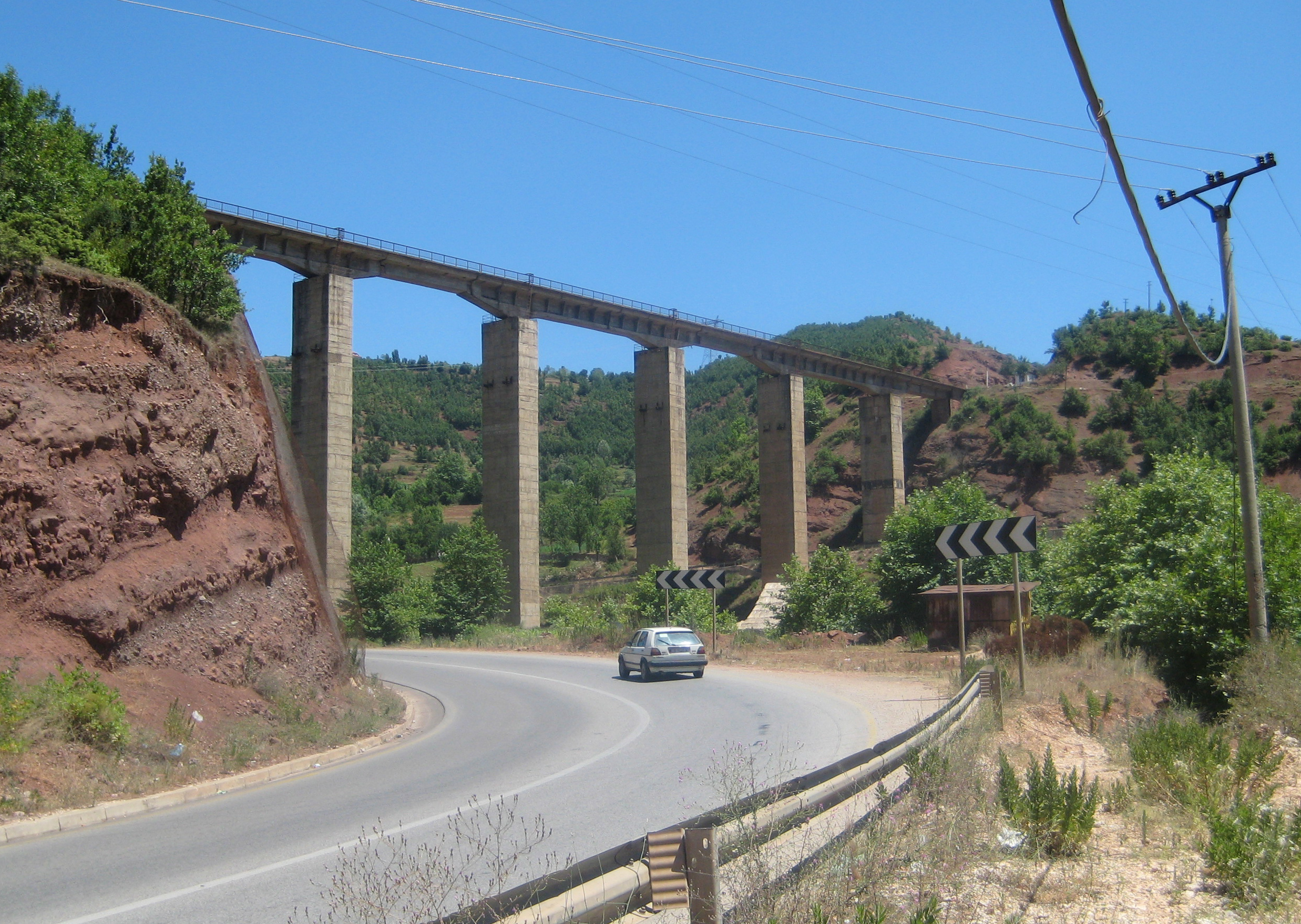 The Bushtrica Bridge in Eastern Albania south of Librazhd is the highest (47 meters) and longest bridge of the country (built in 1973)